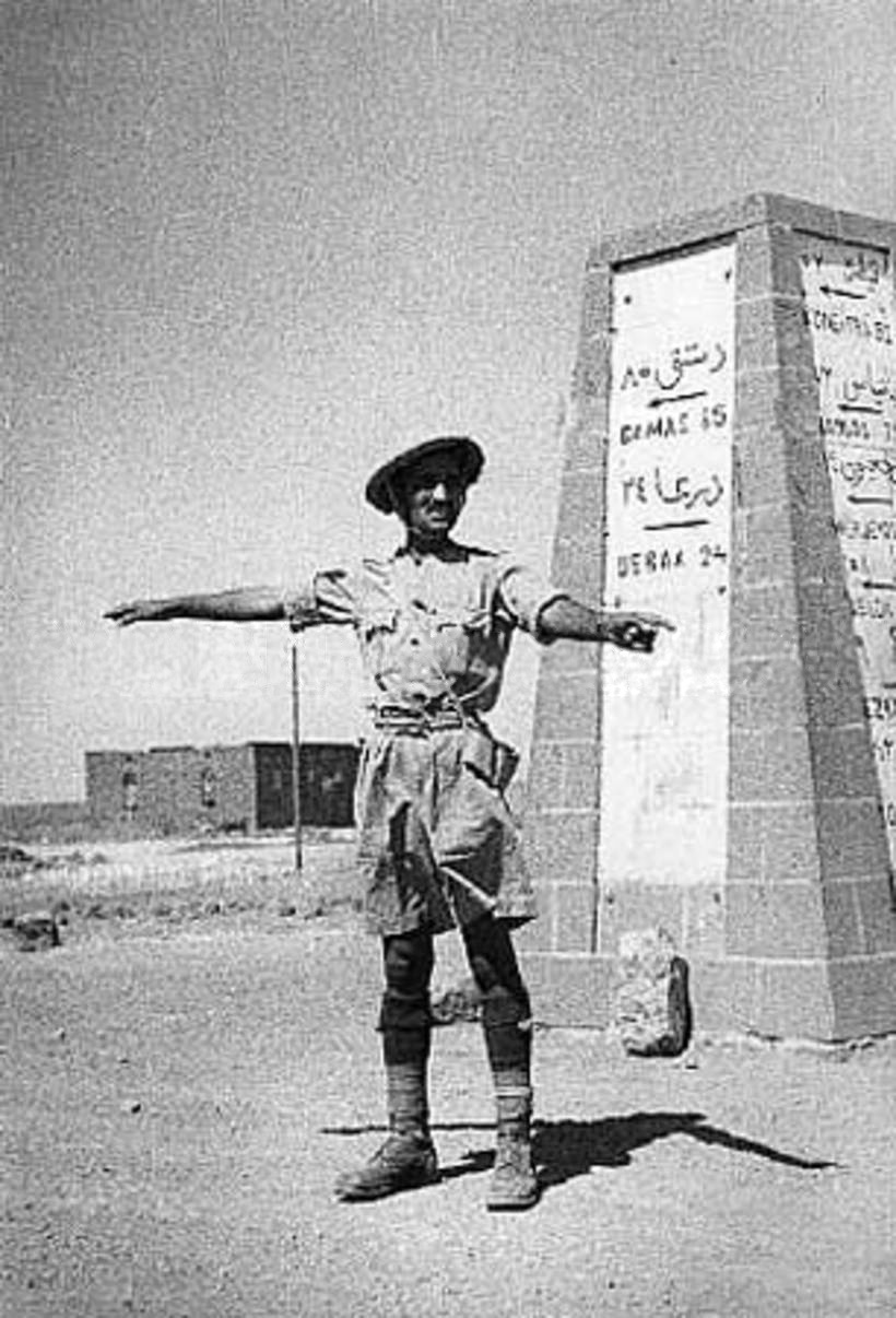 A policeman of the 5th Indian Division, serving in Syria during World War II, directed military traffic on the Daraa-Damascus highway in 1941.